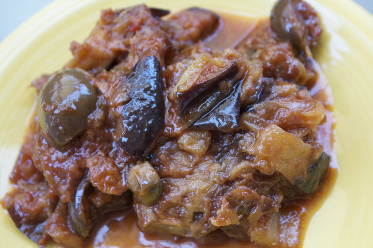 sicilian vegetarian dish with eggplant, olive, onion, caper, celery